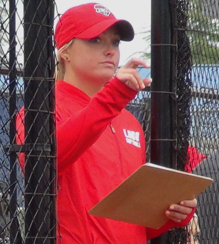 University of New Mexico pitching coach Megan Betsa coaches her team during a game at San Jose State University on April 29, 2018.